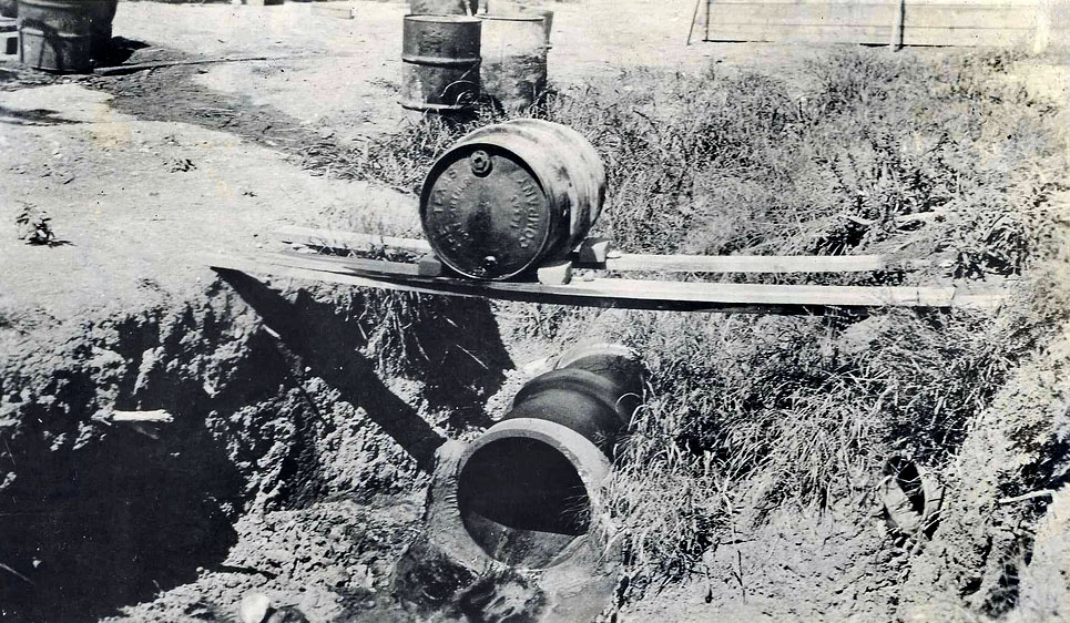 Mosquito control. Oil drip at storm sewer. Kelly Field, Texas. Possibly World War 1.